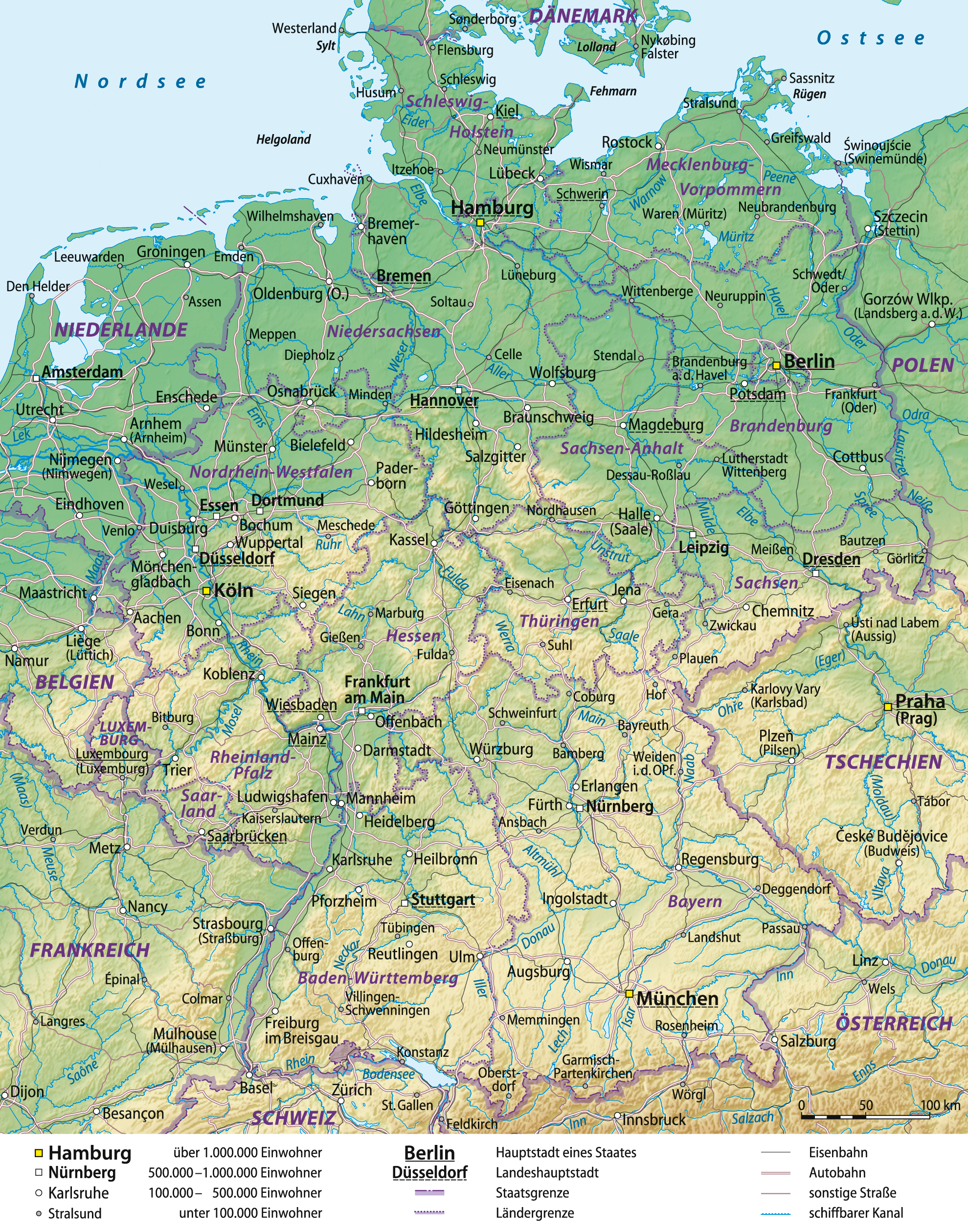 General map of Germany, German version